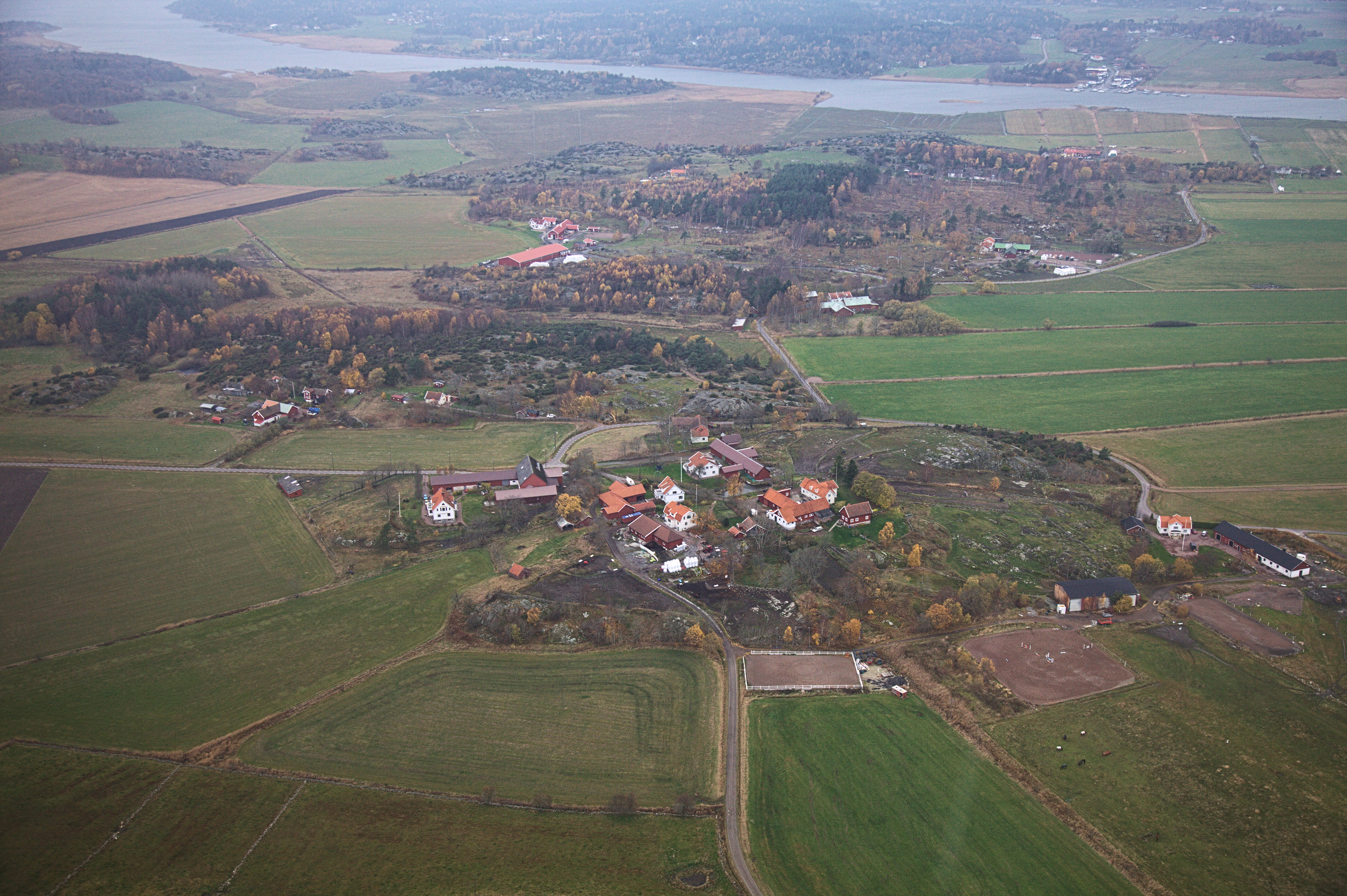 Photo taken on a helicopter over Gothenburg. Closest to helicopter is the small village Öxnäs and beyond it the river Nordre älv.